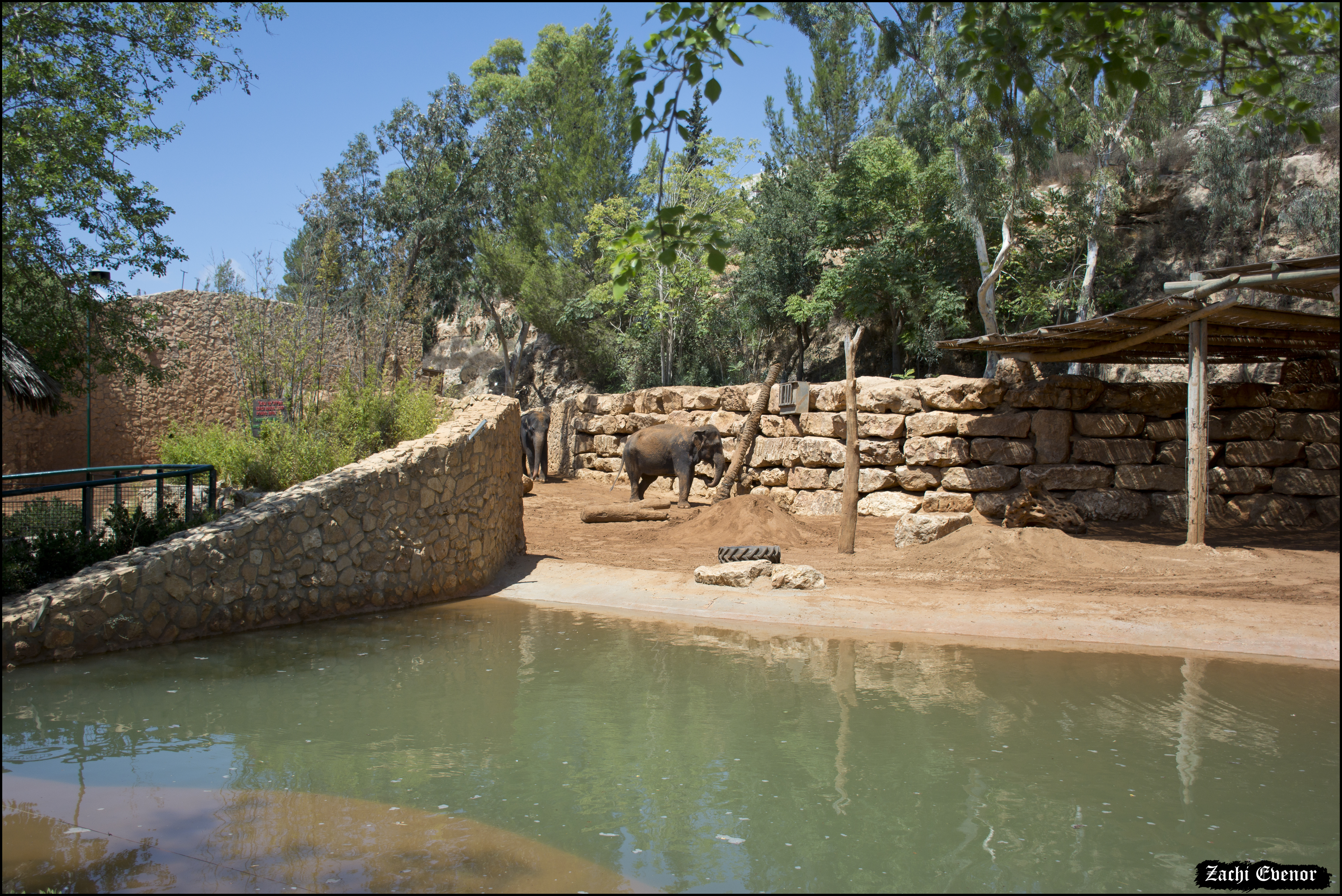 Asian Elephant - Elephas maximus, Jerusalem Biblical Zoo, Jerusalem, Israel